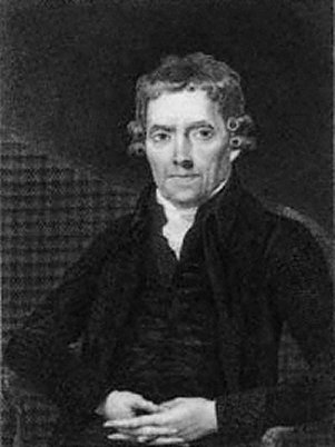 "Joseph Johnson." William Sharp after Moses Haughton. Oxford Dictionary of National Biography. Only known portrait of Johnson.